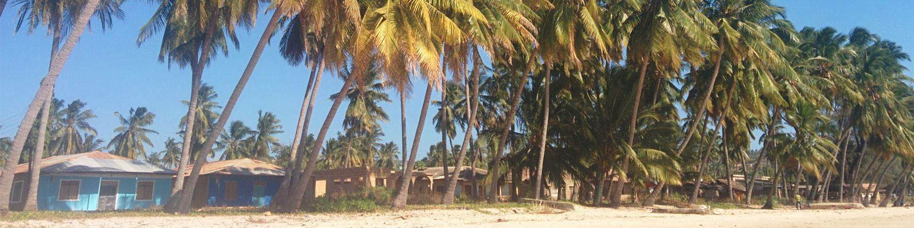 Shacks and palm trees on Lindi Beach